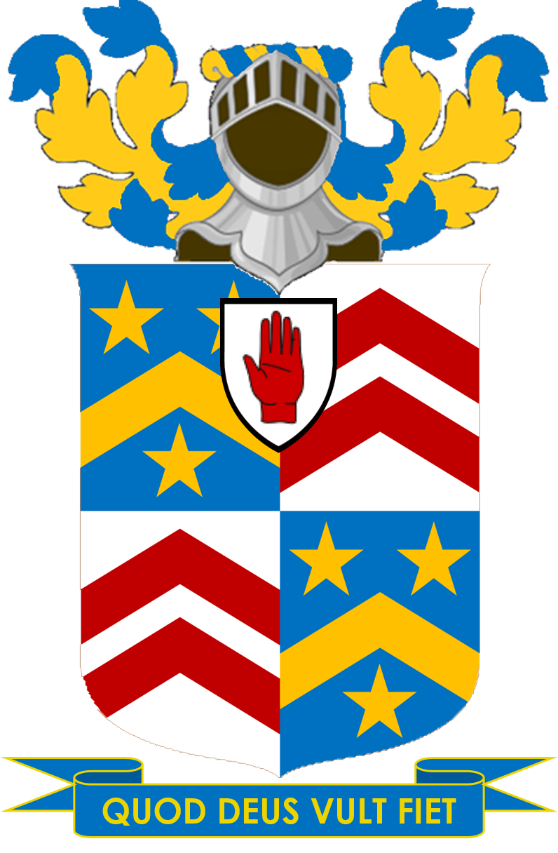 The armorial achievement of the Cetwynd baronets of Brocton Hall